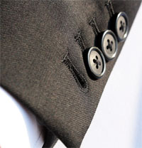 Photo of a tailor-made suit's sleeve buttons; first button opened.